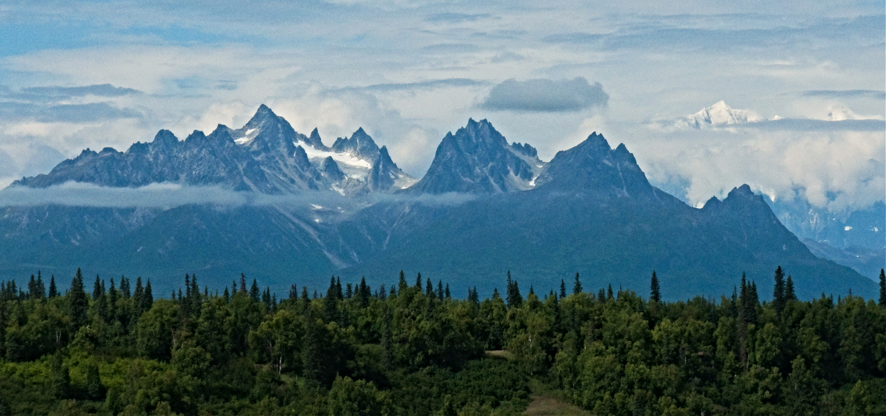 Tokosha Mountains of Alaska